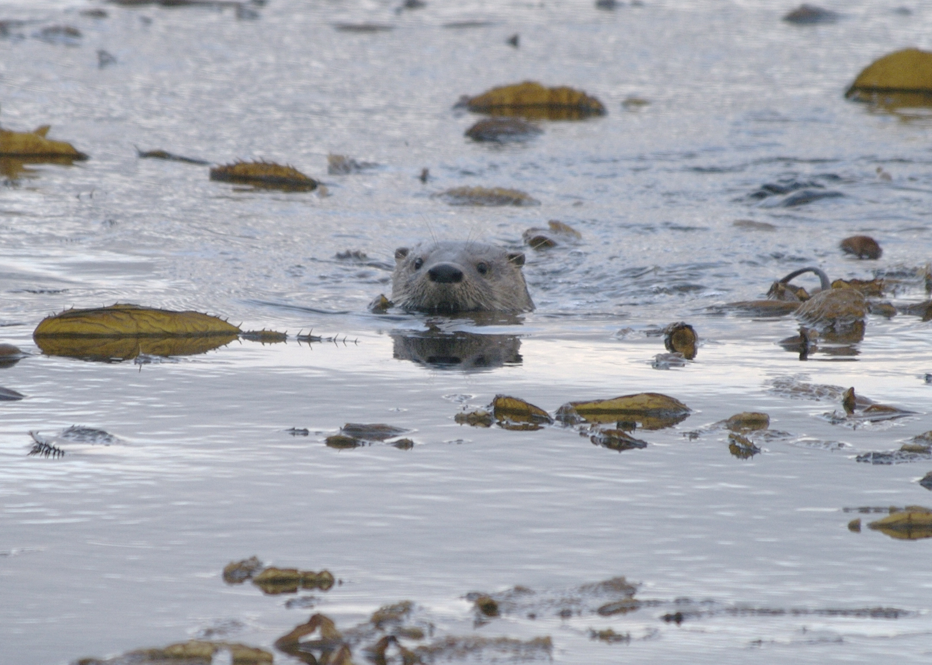 Southern river otter